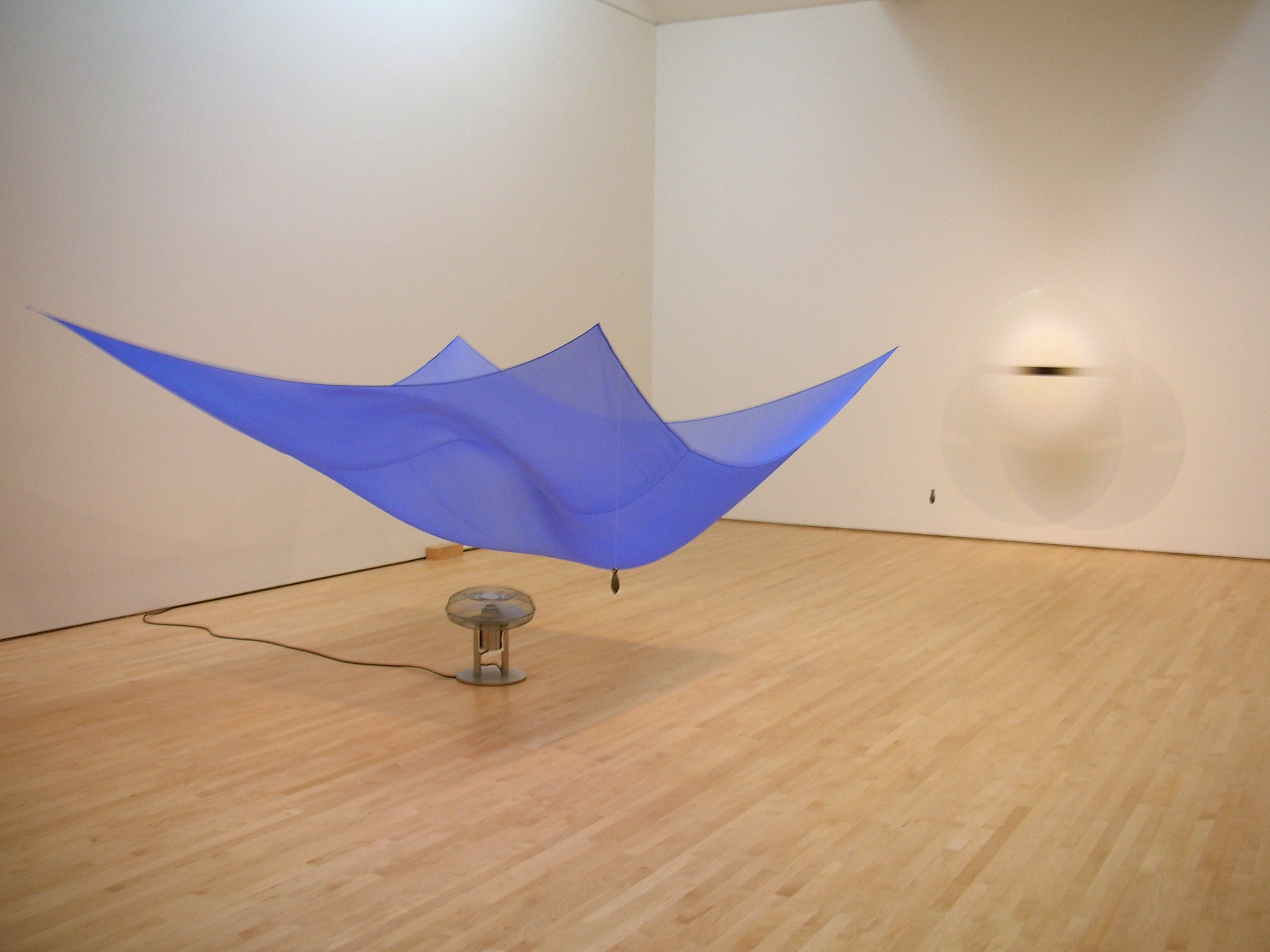 From: "Around 1965 Haacke moved on to other flexible natural forces and started to build his “weather events” with air draughts and blower systems both indoors and outdoors. Blue Sail (1965) was one of his indoor installations, consisting of blue chiffon, nylon thread, weights, and an oscillating fan which kept the installation in perpetual motion, as if it were a living organism fluttering fragilely in the air, but kept alive only with the help of the fan."